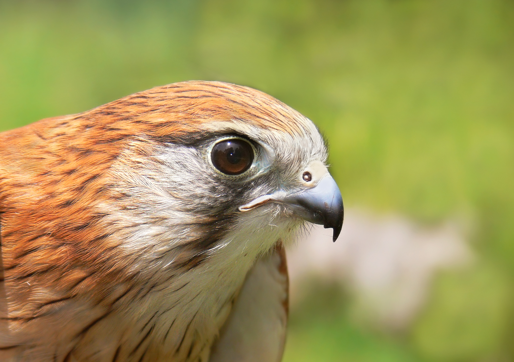 A Kestrel, Falco cenchroides, in Australia .